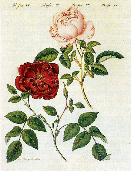 “Dark & pale everblooming rose (Rosa semperflorens)”, now Rosa chinensis. Illustrated by F.J. Bertuch / Text